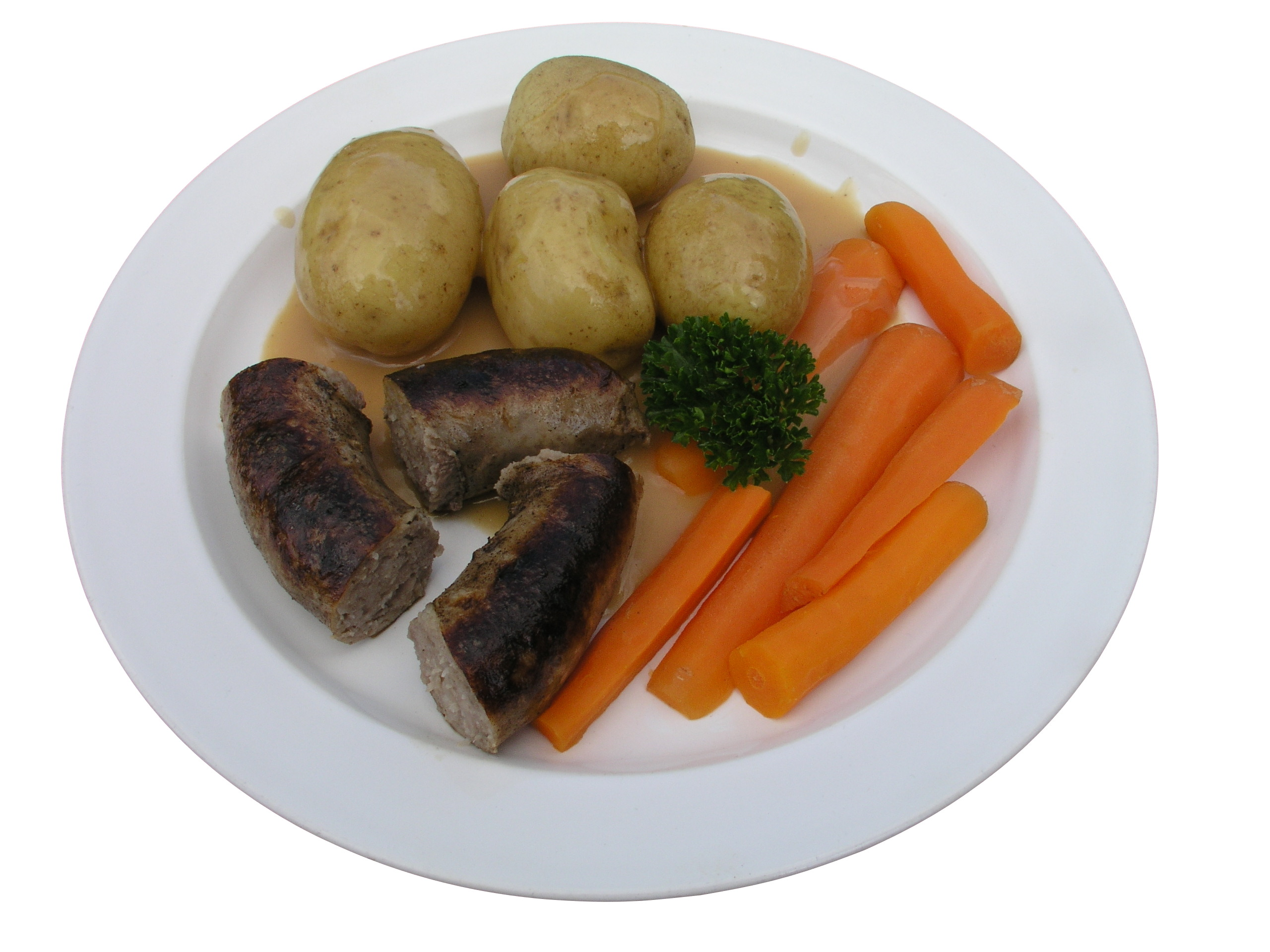 Medisterpølse (a Danish kind of spiced pork sausage} with potatoes and gravy. Additionally boiled carrots and parsley.